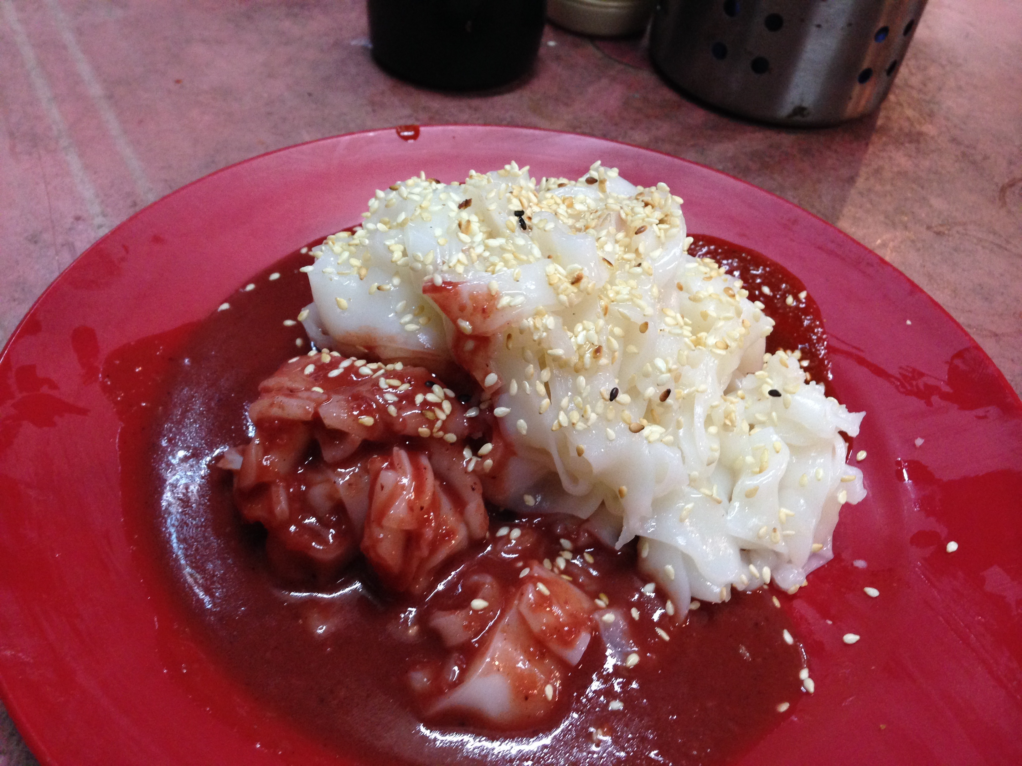 chee cheong fun in KL